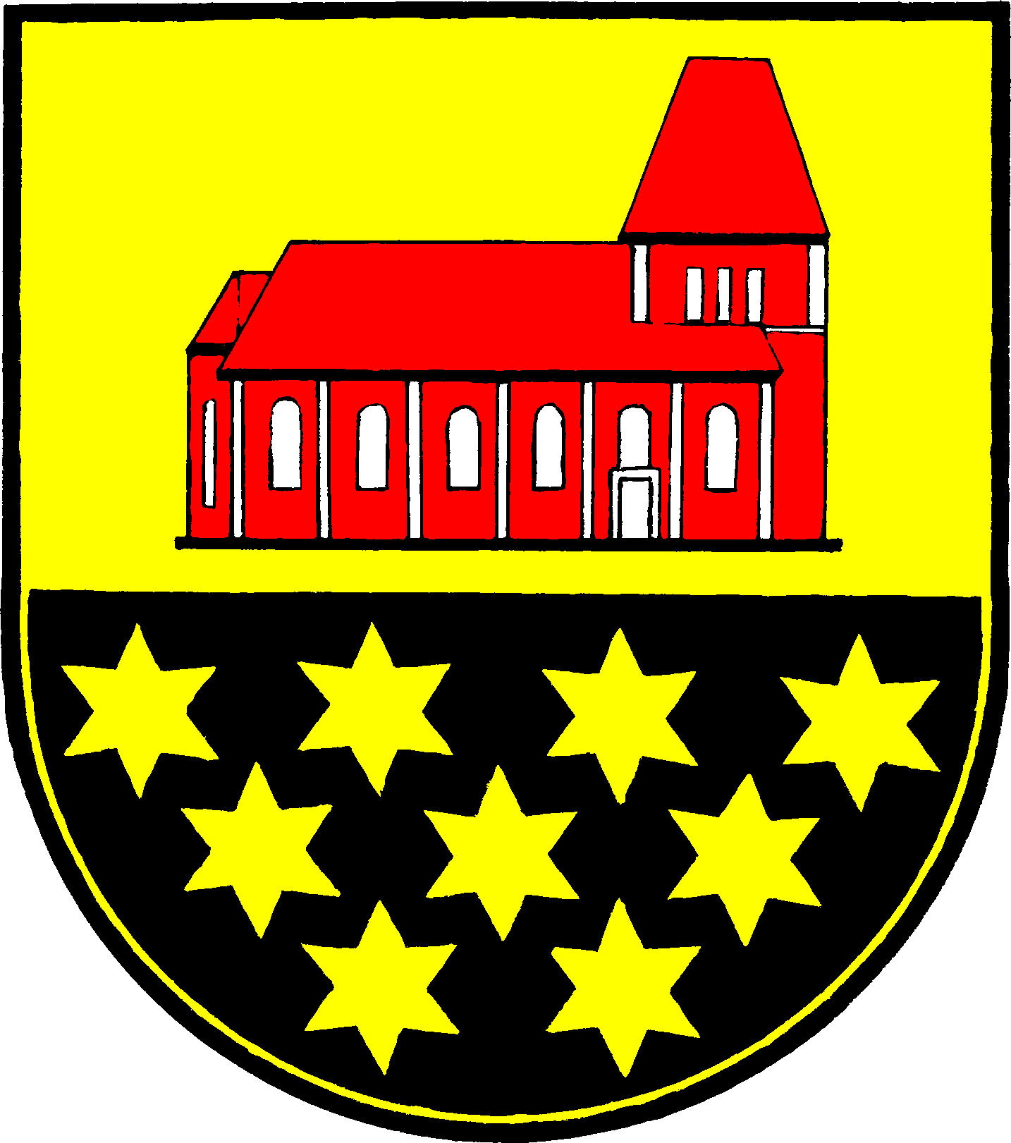 Coat of arms of the former Amt (county) Nusse in Schleswig-Holstein, Germany.